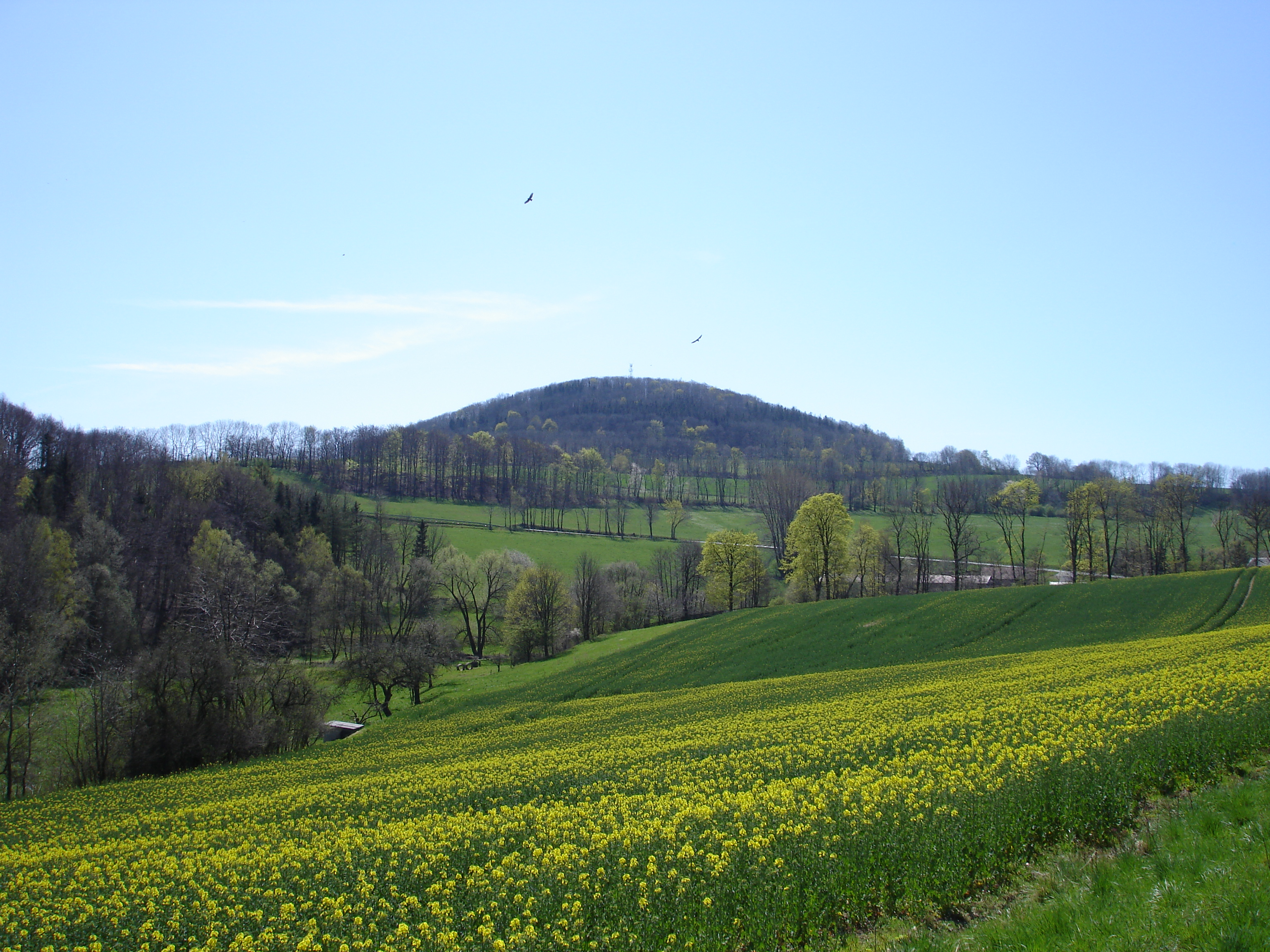 view to mountain Luchberg in Erzgebirge near Dresden, Saxony, Germany